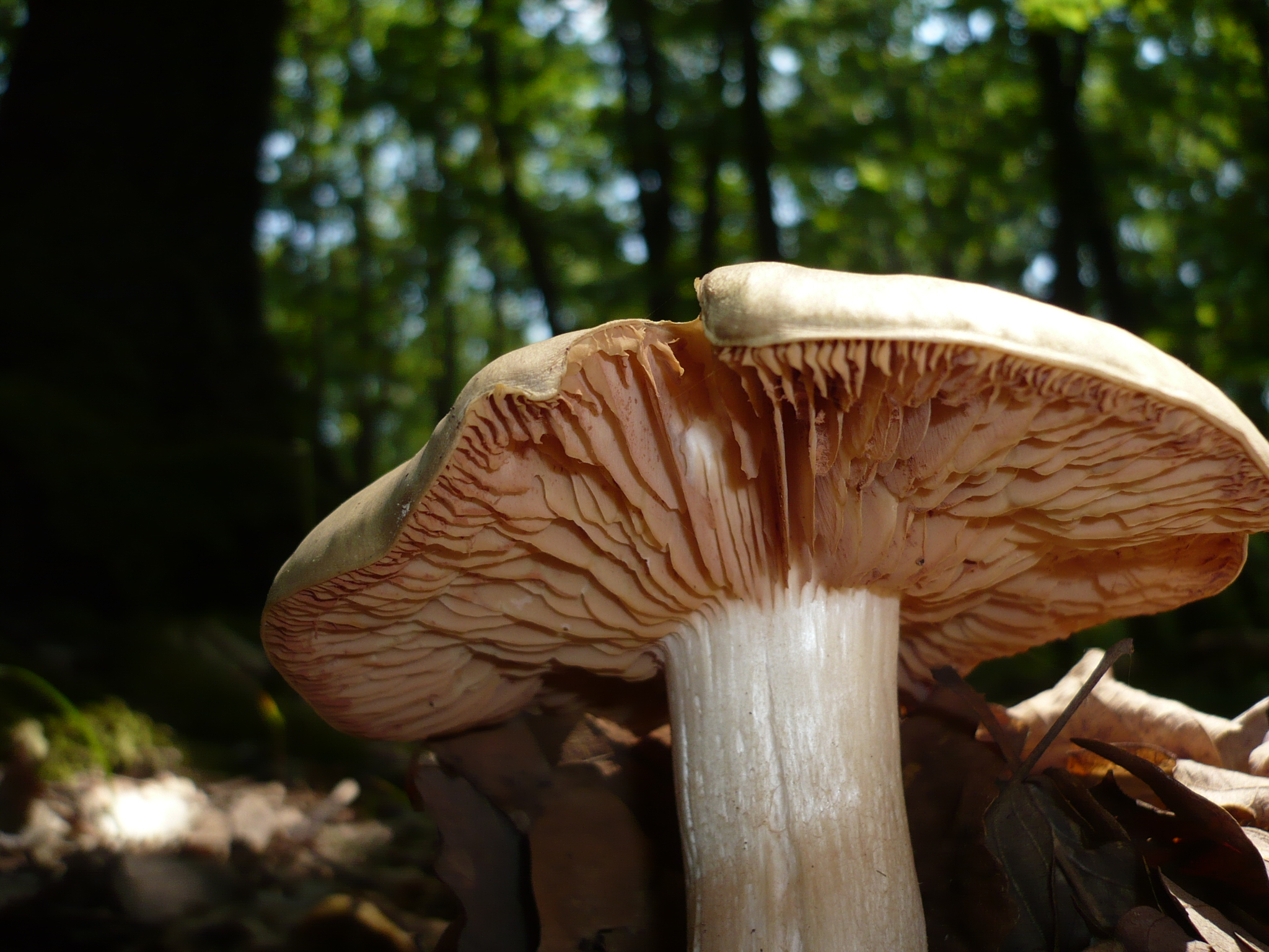 A mature fruit body of the fungus Entoloma sinuatum (Bull.) P. Kumm. showing the distant, pink gills. Photographed in Schattendorfer Wald, Schattendorf, Bezirk Mattersburg, Burgenland, Austria.